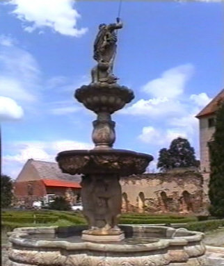 Castle Kaceřov - the statue of Neptun in the garden